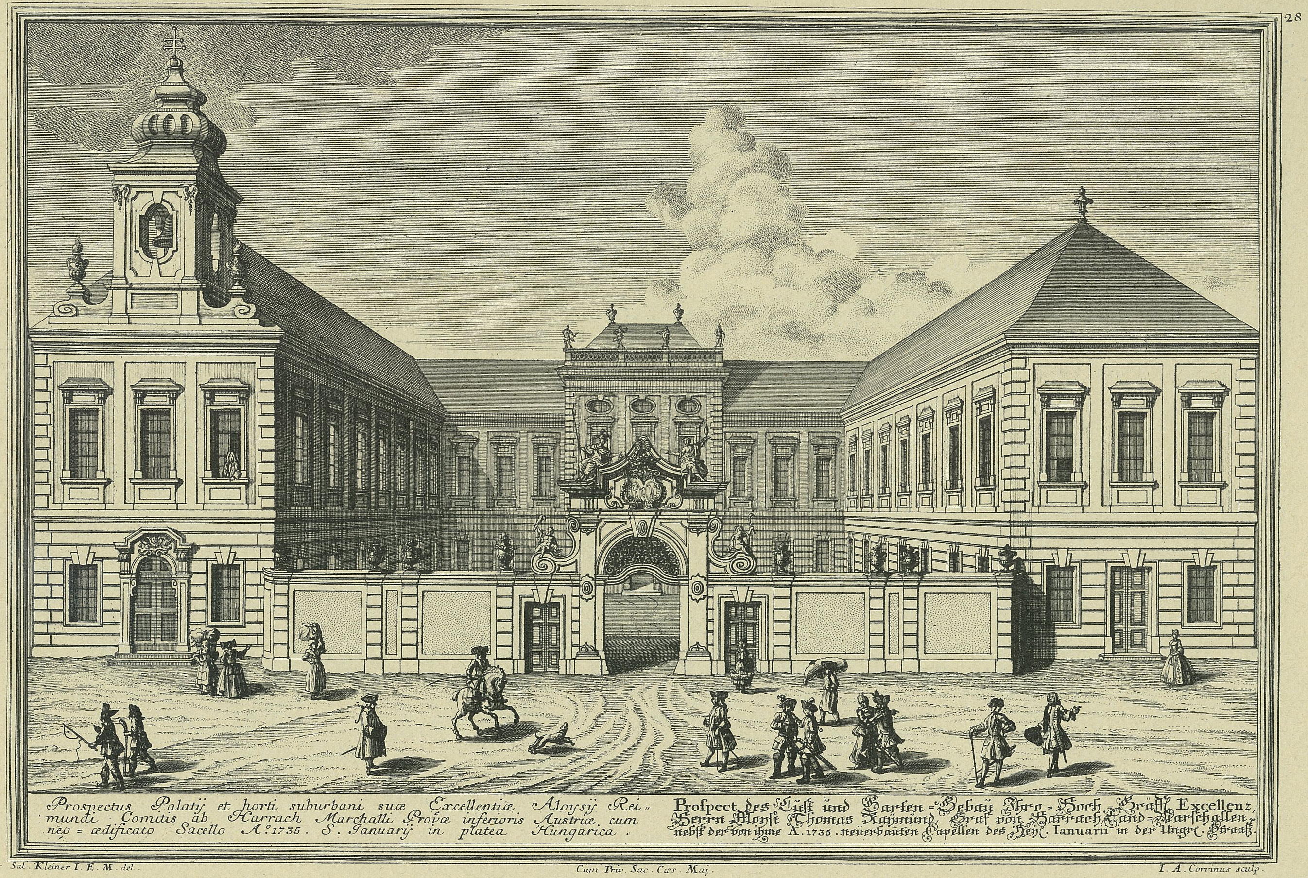 Palais Harach in the Ungargasse in Vienna, drawn by Salomon Kleiner